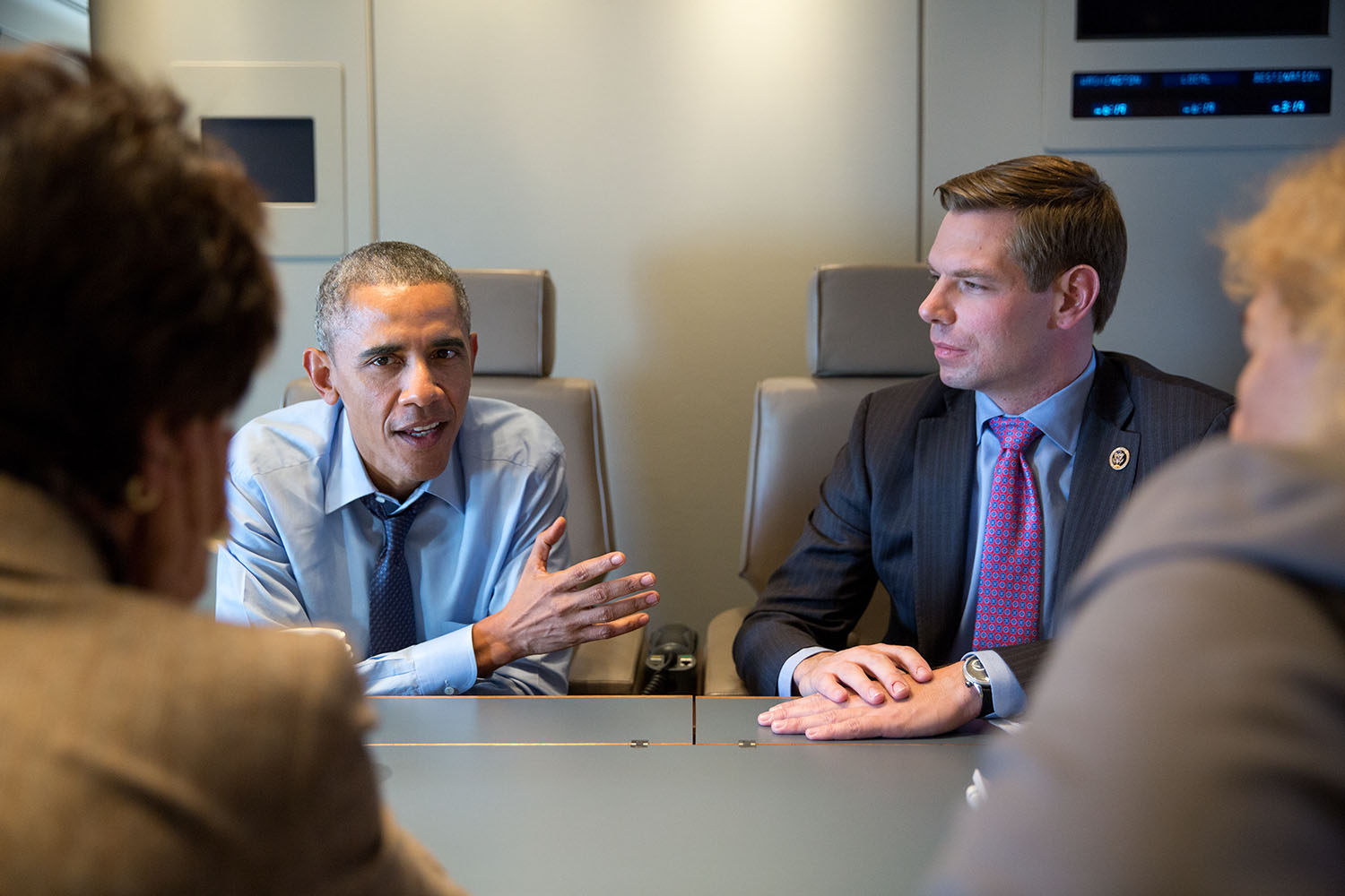 President Barack Obama meets with California Democratic Members of Congress, from left, Rep. Anna Eshoo, Rep. Eric Swalwell and Rep. Zoe Lofgren aboard Air Force One en route to San Francisco, Calif., Feb. 12, 2015. (Official White House Photo by Pete Souza)